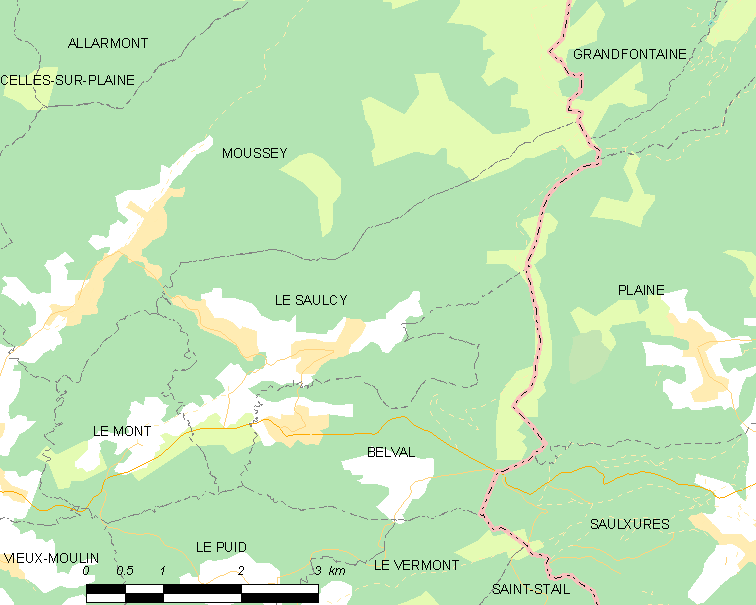 Map of French municipality Le Saulcy